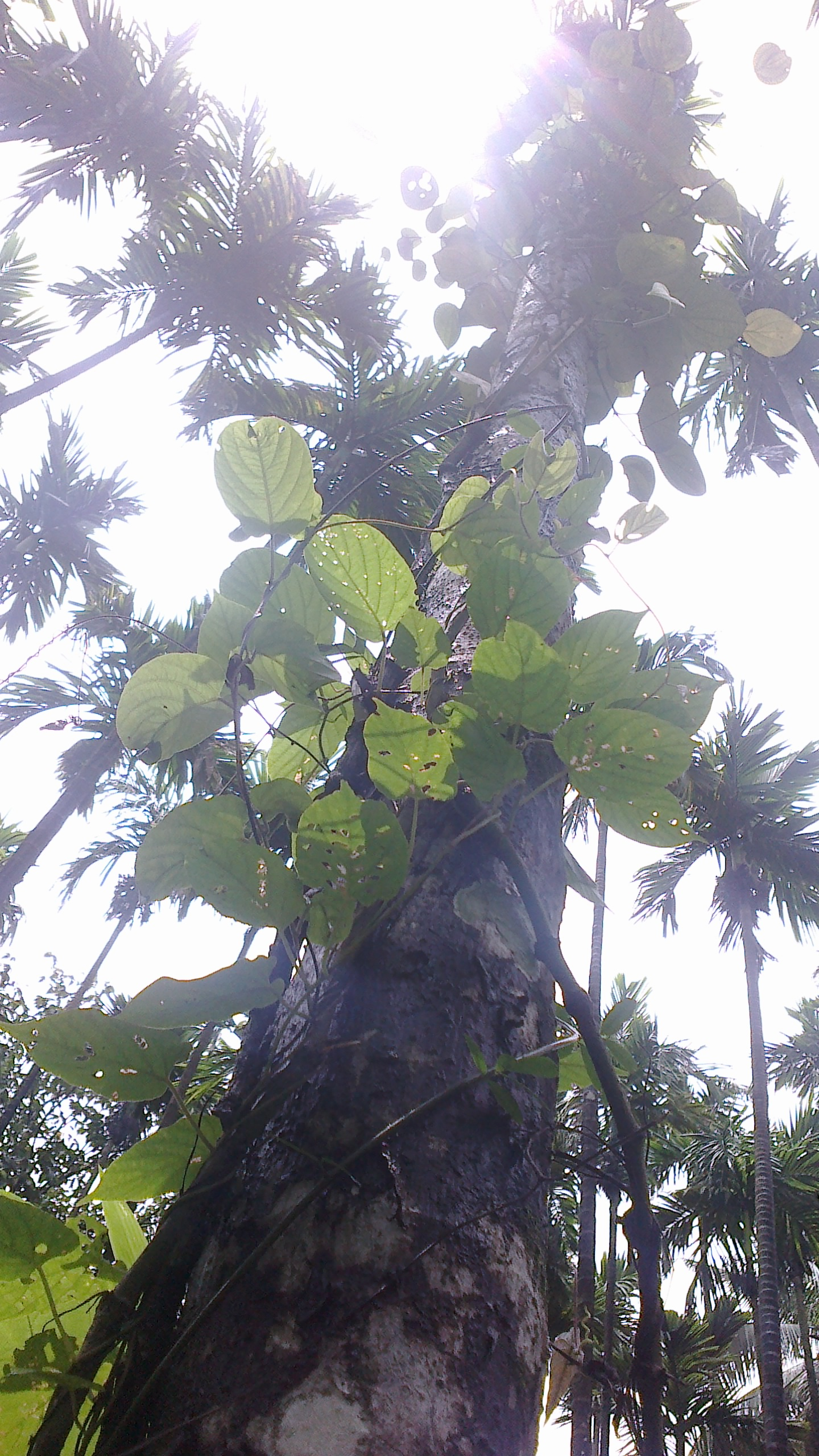 thombattu